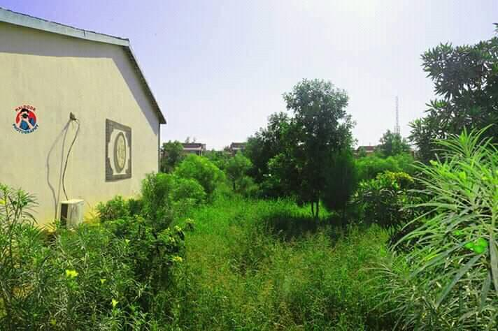 beerta